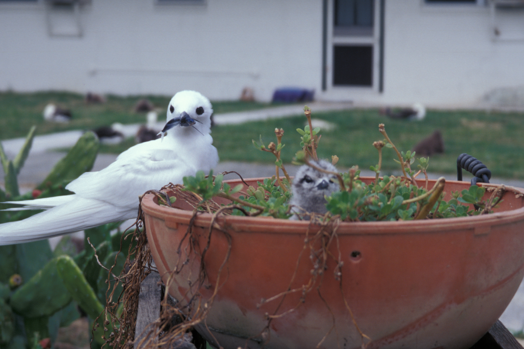 Portulaca oleracea (white tern feeding chick). Location: Midway Atoll, Sand Island